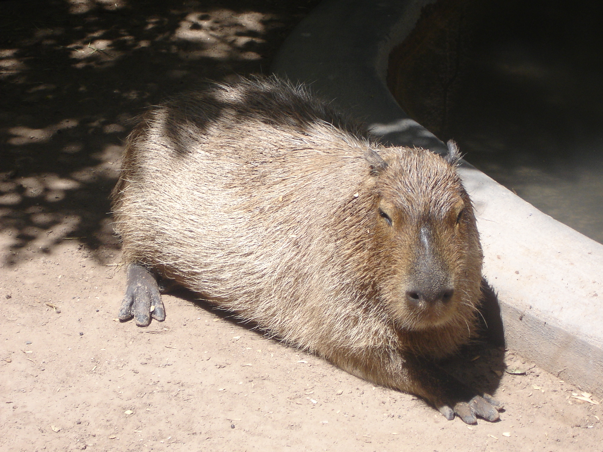 Capybara at the Rio Grande Zoo in Albuquerque, New Mexico.